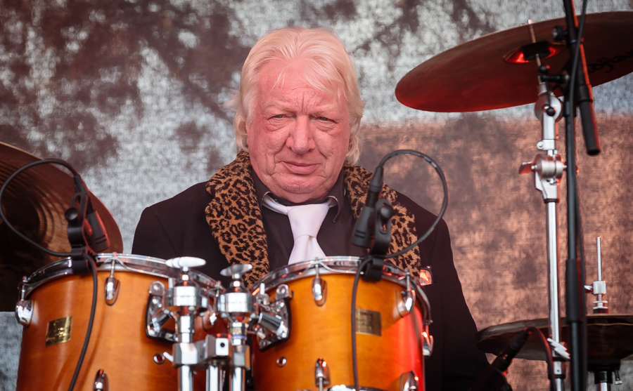 Arnulf Paulsen with Vazelina Bilopphøggers at the stage of Gamle Norge. The concert was part of Kongsberg Jazzfestival and took place on 08. July 2017. Lineup: Eldar Vågan (guitar / vocal) Arnulf Paulsen (drums) Jan Einar Johnsen (saxophone) Kjetil Foseid (guitar / vocal) Terje Methi (bass guitar) Tor Welo (keyboard) Even Finsrud (drums)